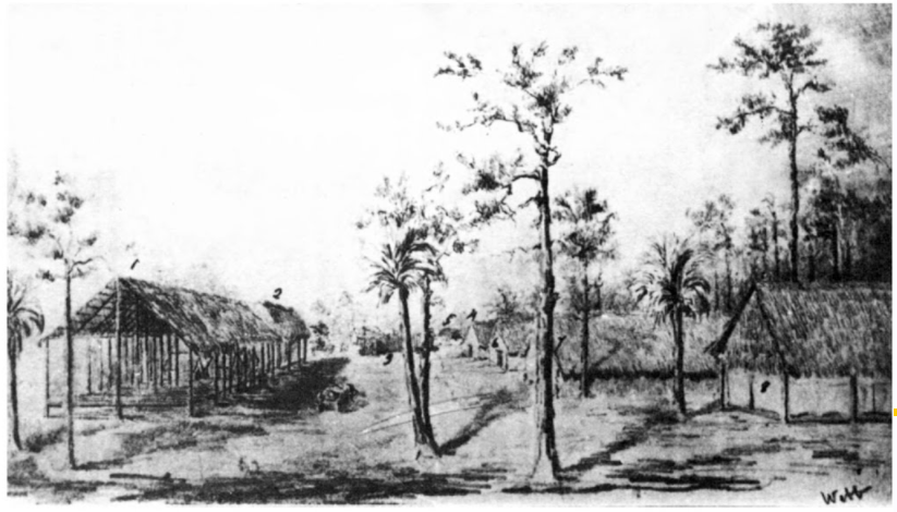 Sketch by Alexander Webb in the early part of 1856 of Fort Denaud